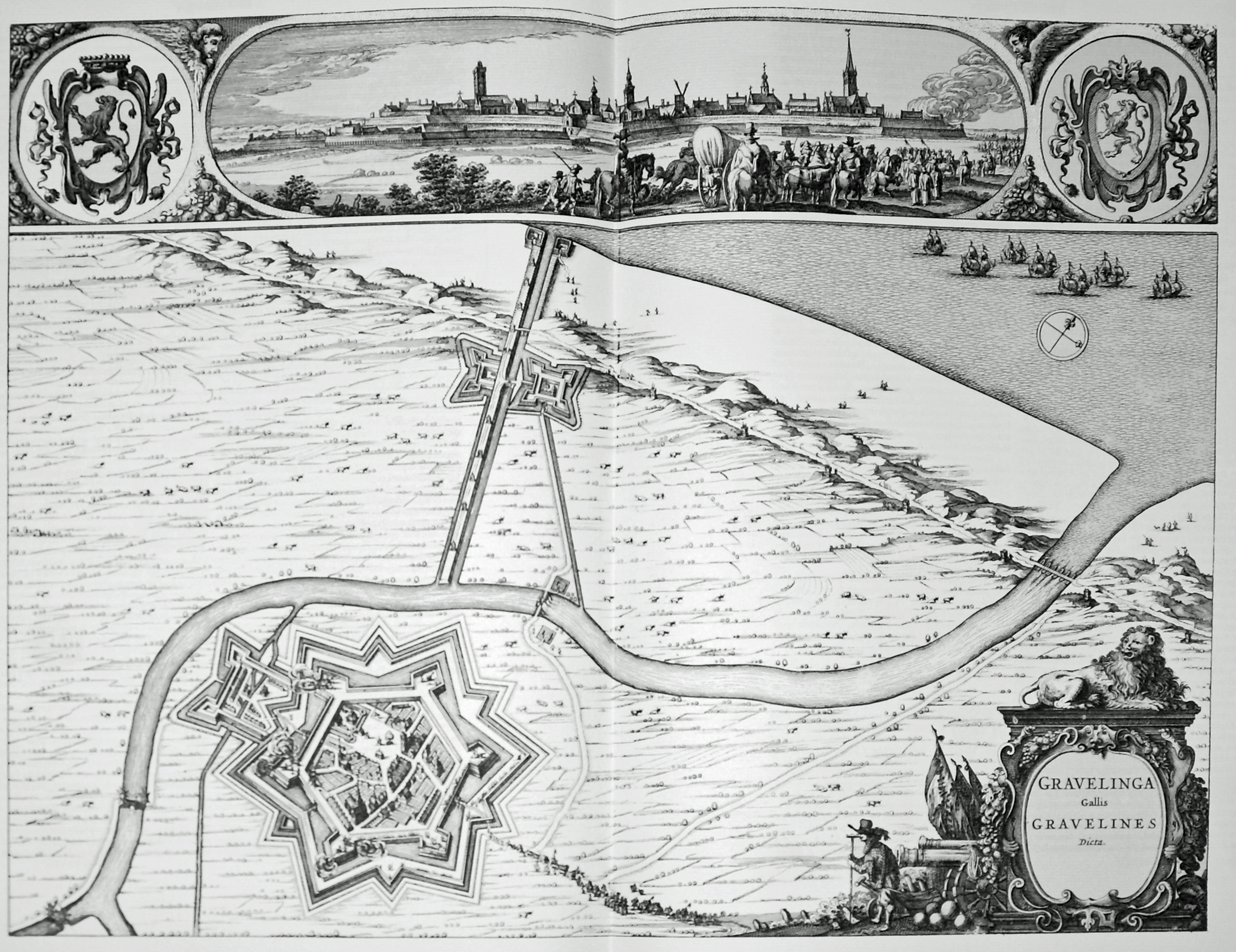 Grevelingen (France): Page 649 of Antoon Sanders Flandria Illustrata